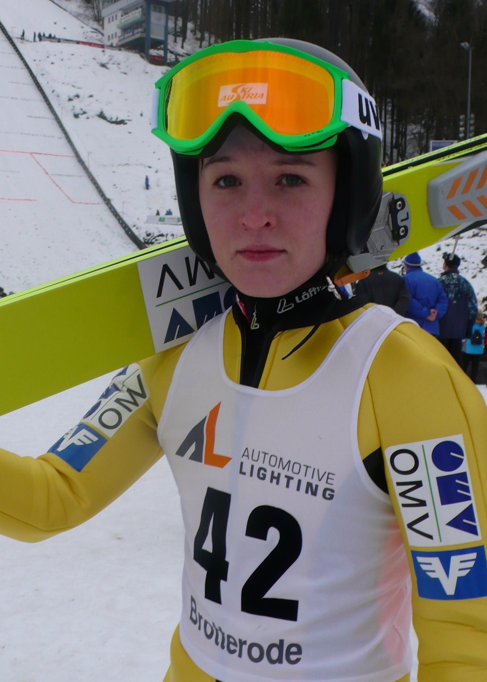 Jacqueline Seifriedsberger